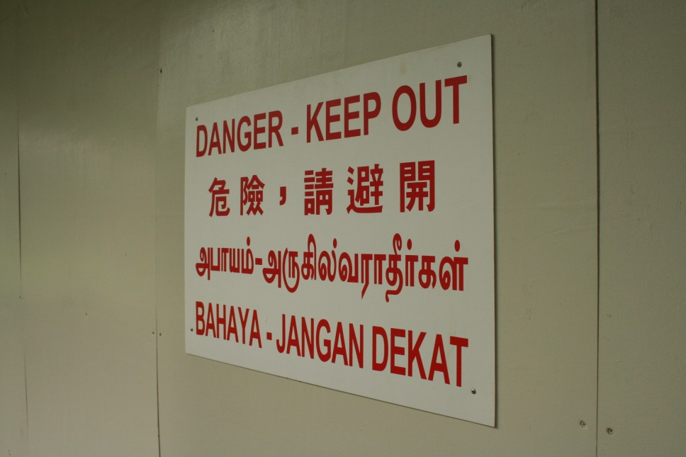 A "Danger – Keep Out" sign in Singapore in four languages: English, Mandarin, Tamil and Malay.